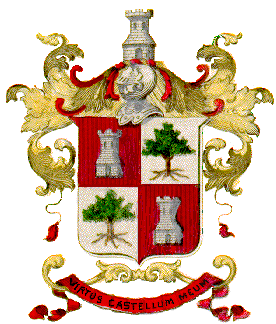 Van Voorhees coat of arms